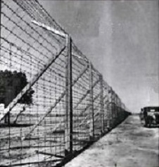 Double barbed fence installed by the Indian authorities around the French settlements of Pondicherry and Karikal in March 1953, officially to counter smuggling into India but also to exert pressure on France to speed up the transfer of sovereignty over her Indian possessions (French India) to India. On 1 November 1954 France transfers to India de facto control of its possessions. De jure transfer will occur in 1956.